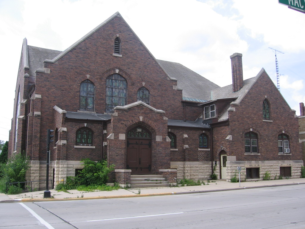 For use in Fond du Lac County and city articles. The front of the First Baptist church of Fond du lac, Wisconsin.